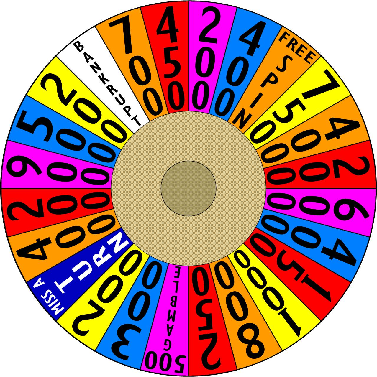 The round one wheel used on the British version of "Wheel of Fortune" in 2001.